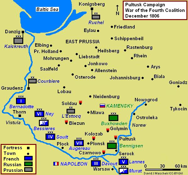 Battle of Pultusk-Golymin-Czarnowo Campaign Map, December 1806